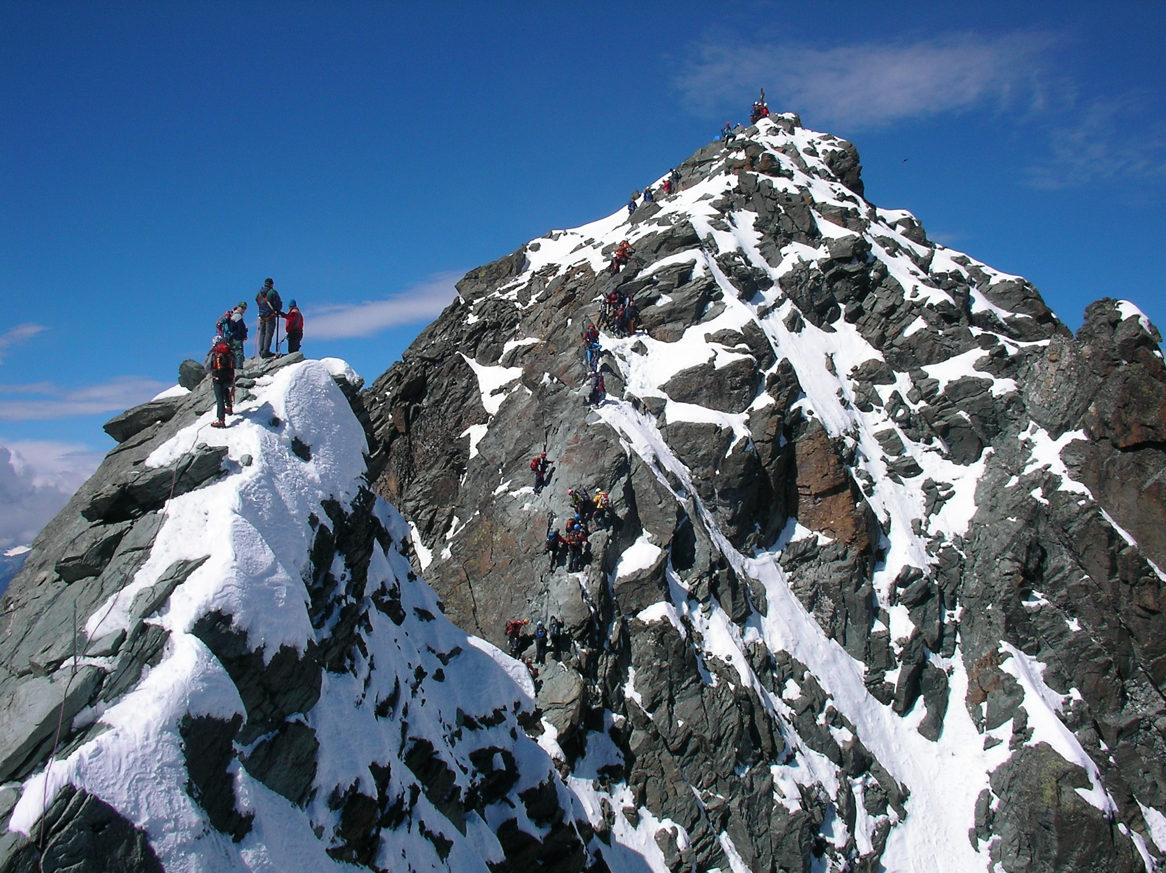 Summit of Großglockner, summit of Kleinglockner (on the left) and the Glocknerscharte separating them.